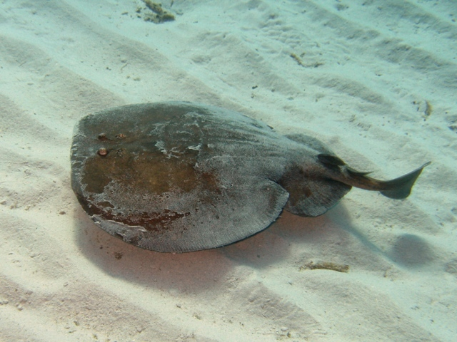 Marbled electric ray (Torpedo marmorata) off Corsica, France